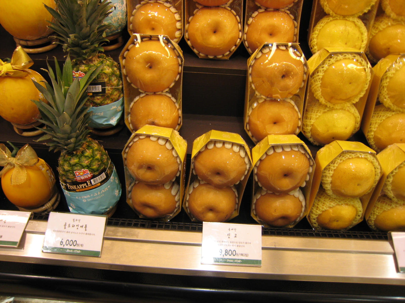 Singo, a species of Bae (배, Korean pear), South Korea